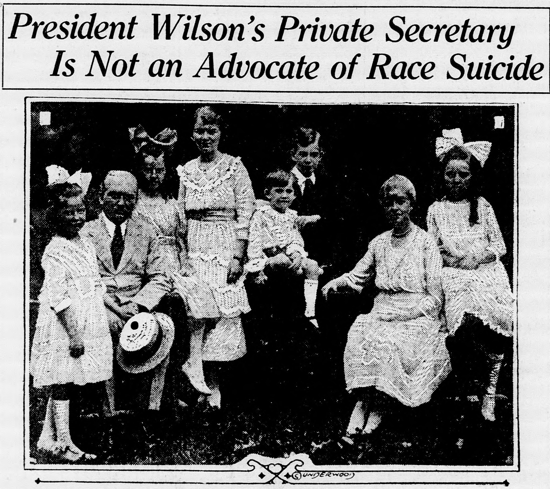 Caption: Joseph Patrick Tumulty, his wife and six children. This new picture of Joseph P Tumulty and his family supplies proof that the president's private secretay is not an advocate of race suicide. The photograph was taken recently at the summer home of the Tumultys at Doal Beach, New Jersey and shows, left to right; Miss Grace, Mr. Joseph Tumulty, Misses Catherine and Mary Phillip and Joseph, Jr., Mrs. Tumulty and Miss Alicia.